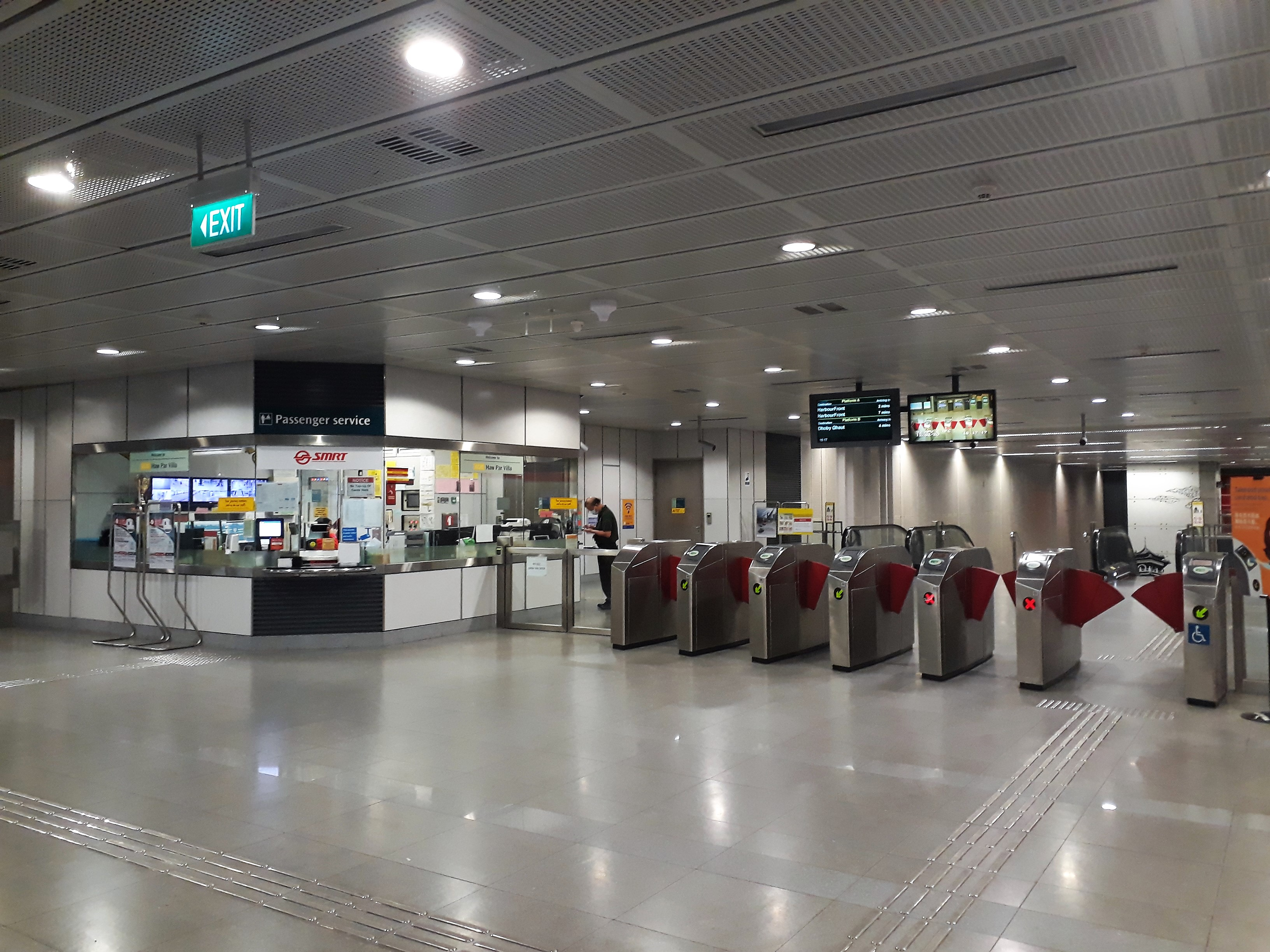 Concourse of Haw Par Villa